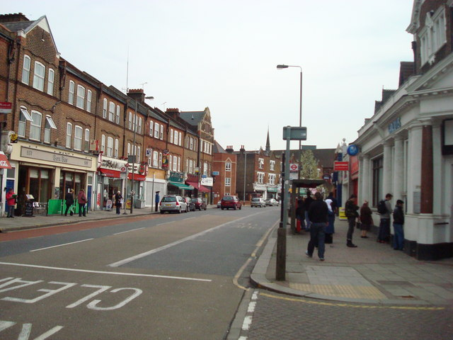 Garratt Lane, London SW18